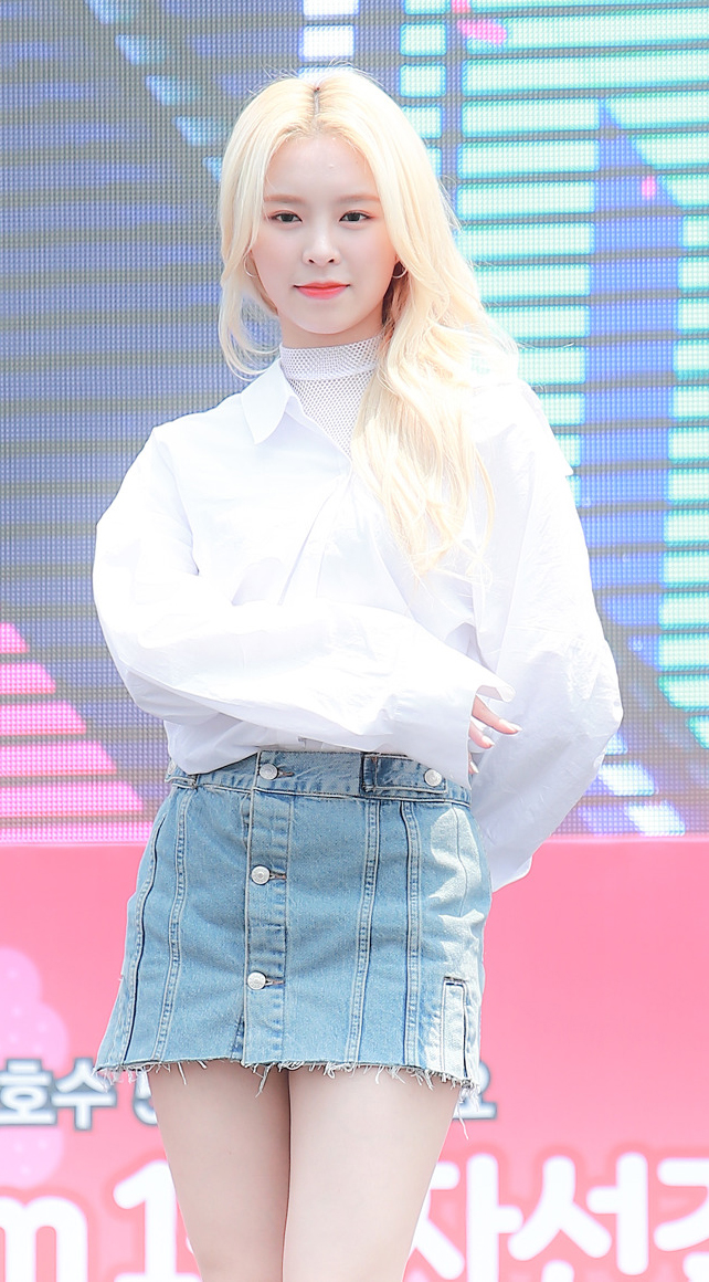 170617 CLC 엘키 @ 광교호수공원